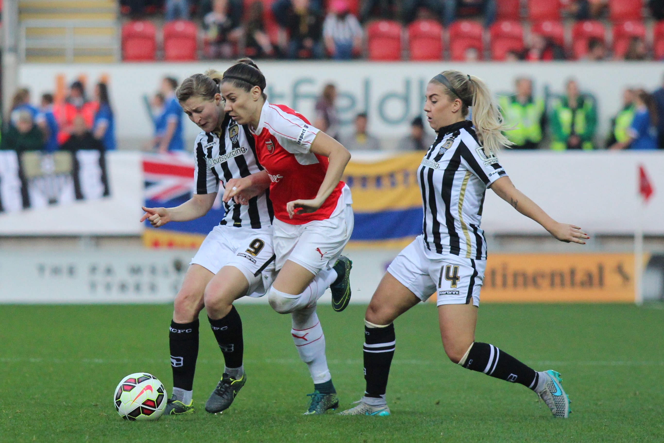 Vicky Losada of Arsenal Ladies is challenged for the ball during the game against Notts County.